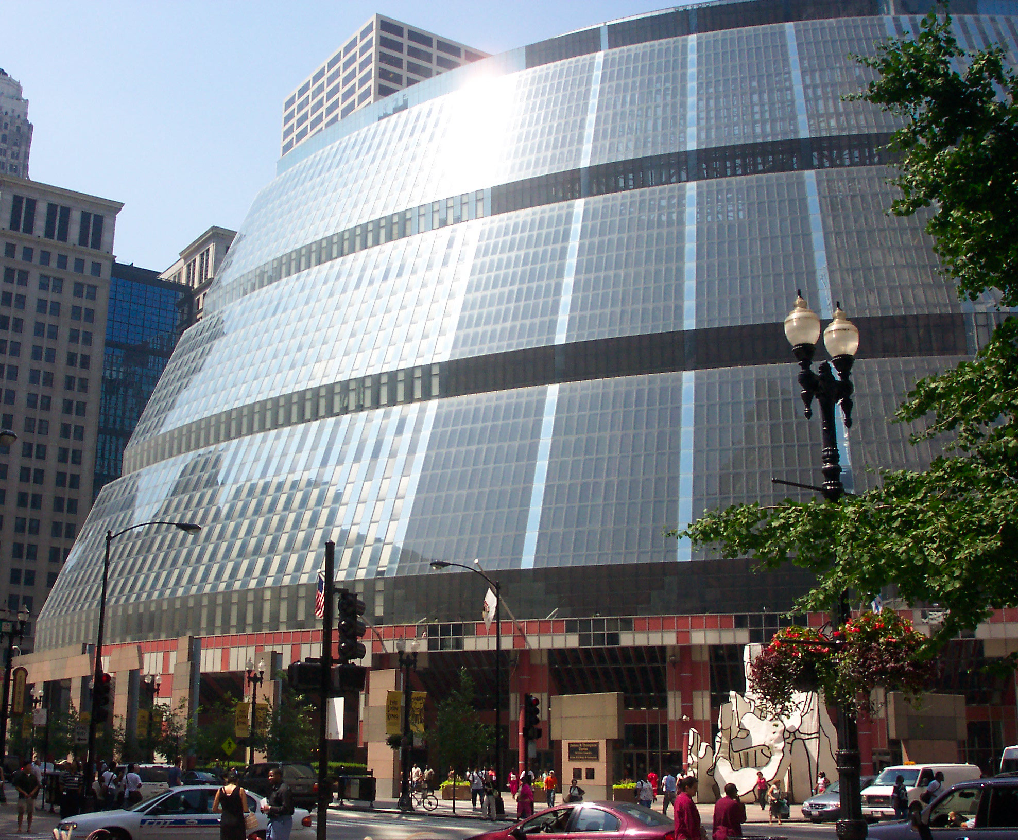 The James R. Thompson Center (JRTC) (also known as Clark & Lake due to its CTA Blue Line stop). located at 100 W. Randolph Street in the Loop, Chicago, Illinois.